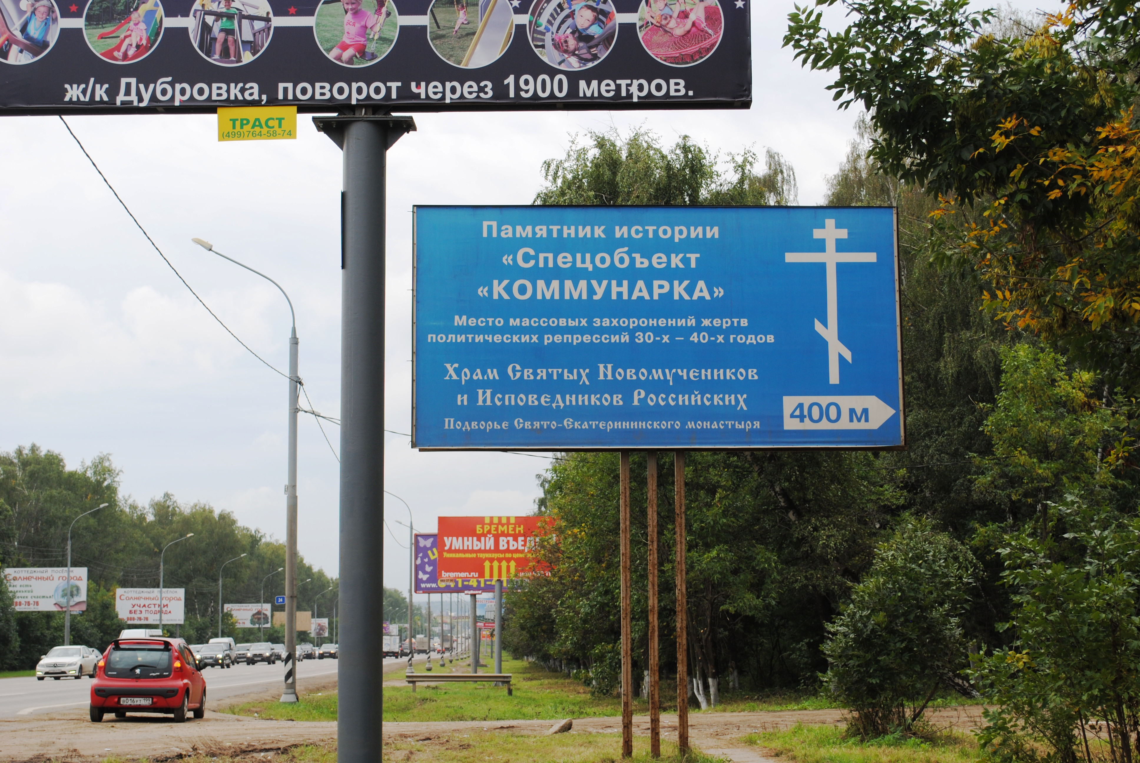 Poligon Kommunarka